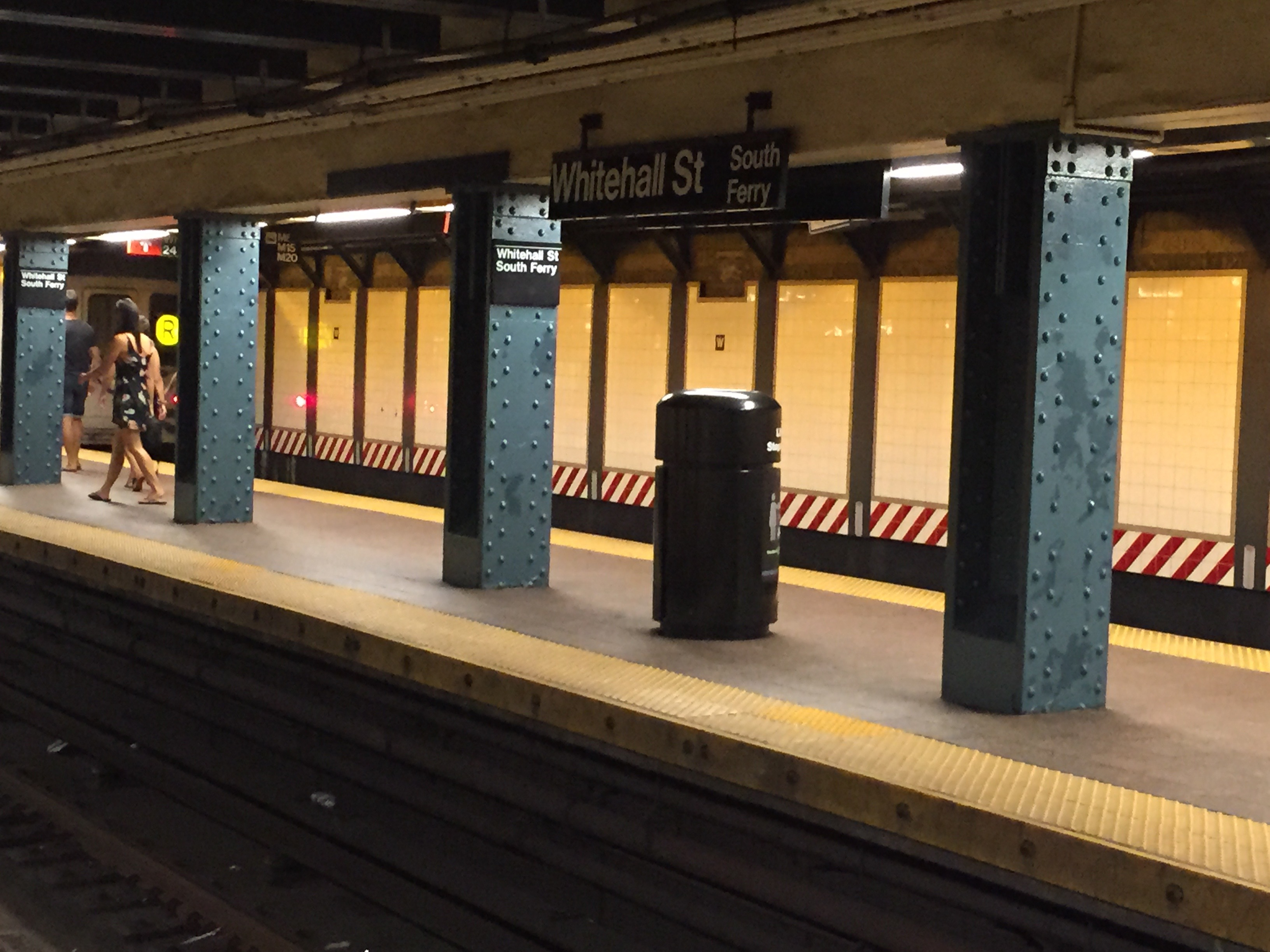 R platform at Whitehall Street